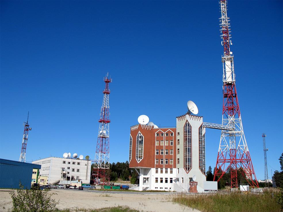 TV centre. Noyabrsk, Yamalo-Nenets Autonomous Okrug (Russia).